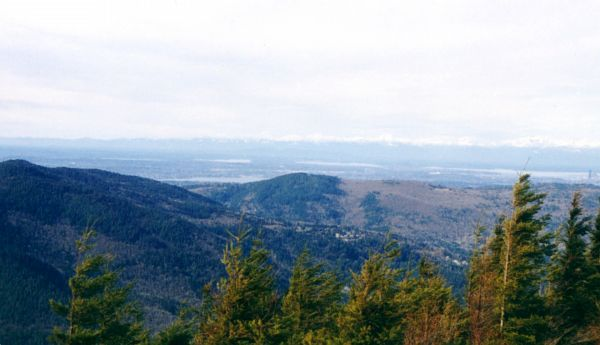 Photo taken by Endomion